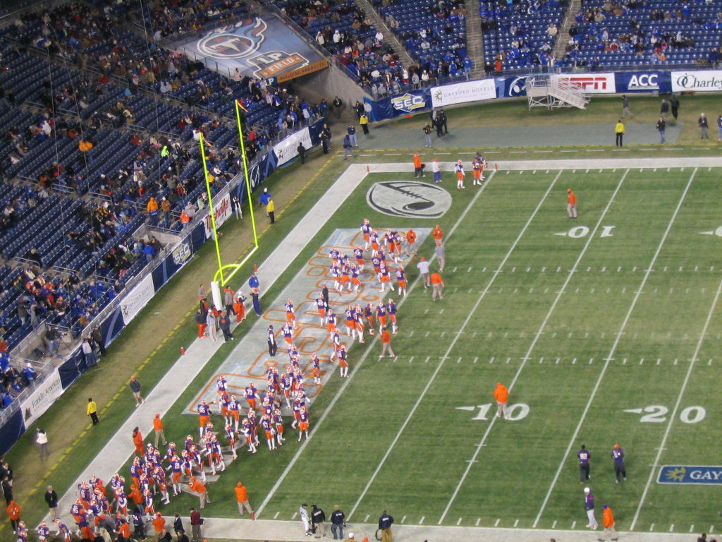 The en:2009 Music City Bowl: The en:2009 Clemson Tigers football team takes the field at the beginning of the game. (Nashville, Tennessee, USA)